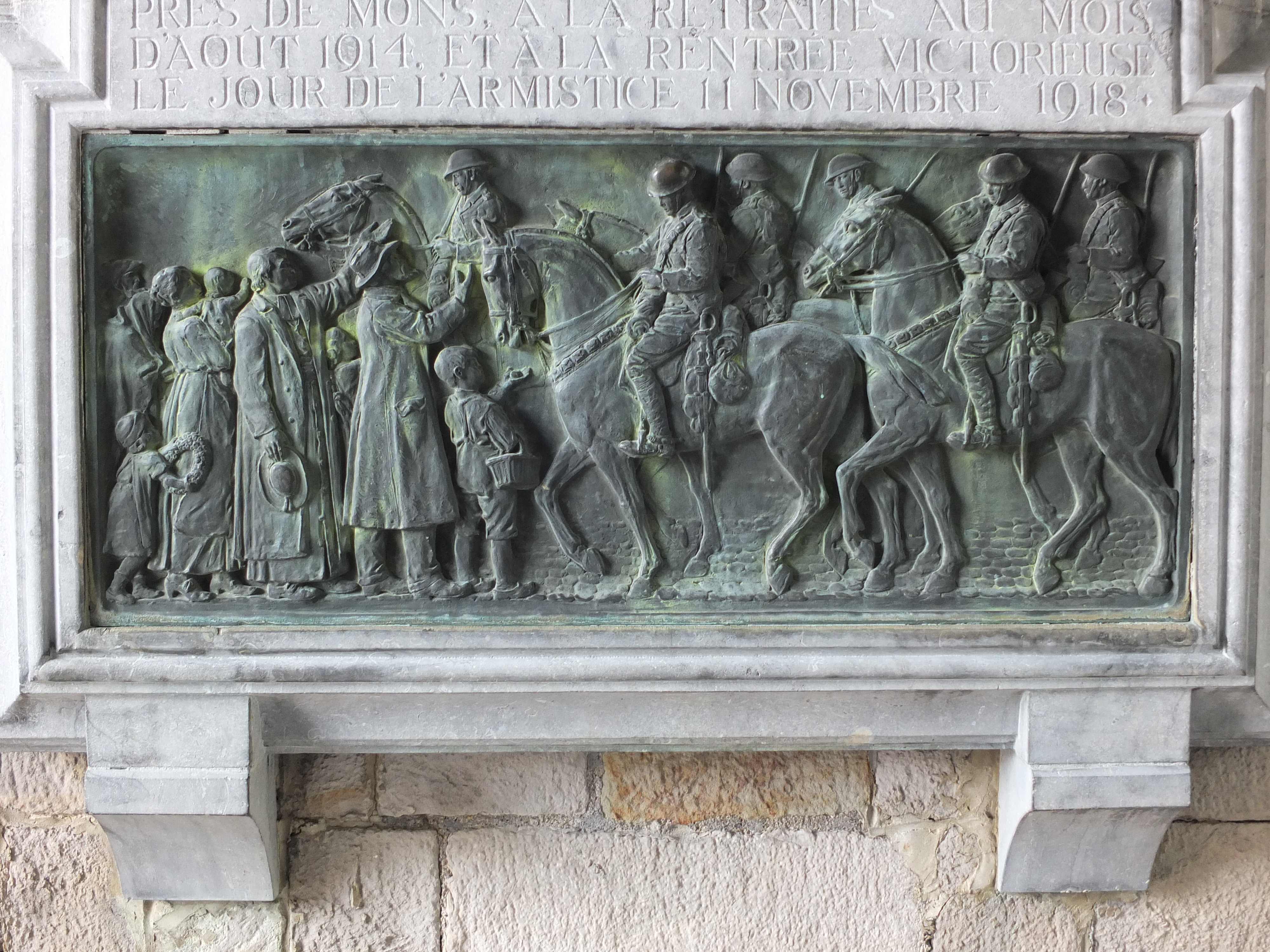 Commemorative plaque at the entrance of the Town Hall for the 5th Royal Irish Lancers, among the last defenders of Mons in August 1914 and among the first to return as liberators on 11 November 1918. Memorial to the 5th Royal Irish Lancers, Hotel de Ville, Mons. 1922. E.J. May, Architect. The Royal Irish Lancers were in Mons at the time of retreat in 1914 but escaped and returned on Armistice Day. The panel below records the return welcomed by the Bourgmestre (mayor) and the Curé. The scene is supposedly taken from a painting, Richard Caton Woodville, “5th Lancers, Re-entry into Mons”, .